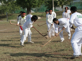 Purepecha Ball